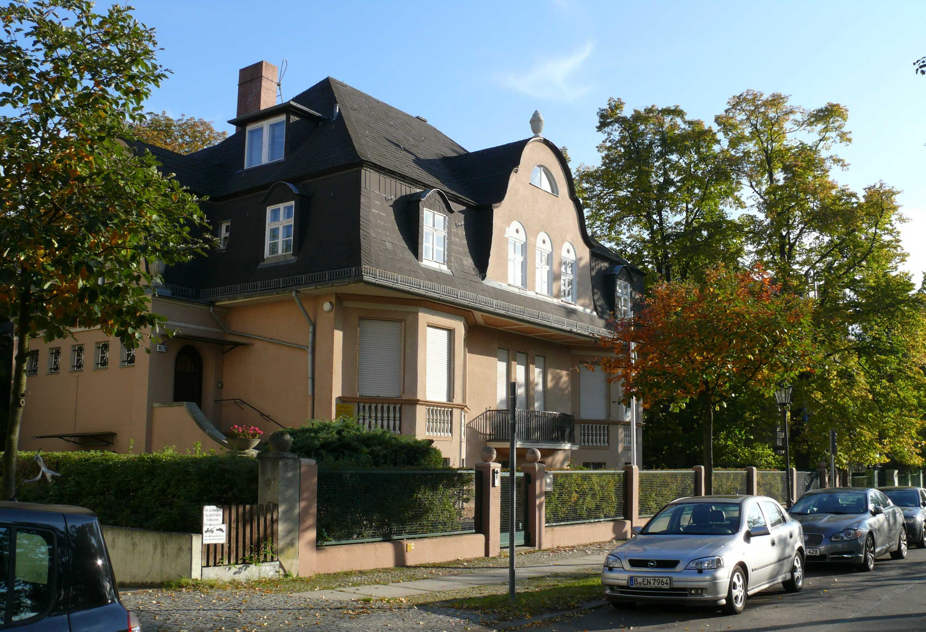 Berlin-Westend Ubierstraße - This building houses the Embassy of Burkina Faso